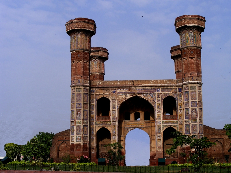 Chauburji This is a photo of a monument in Pakistan identified as the PB-46